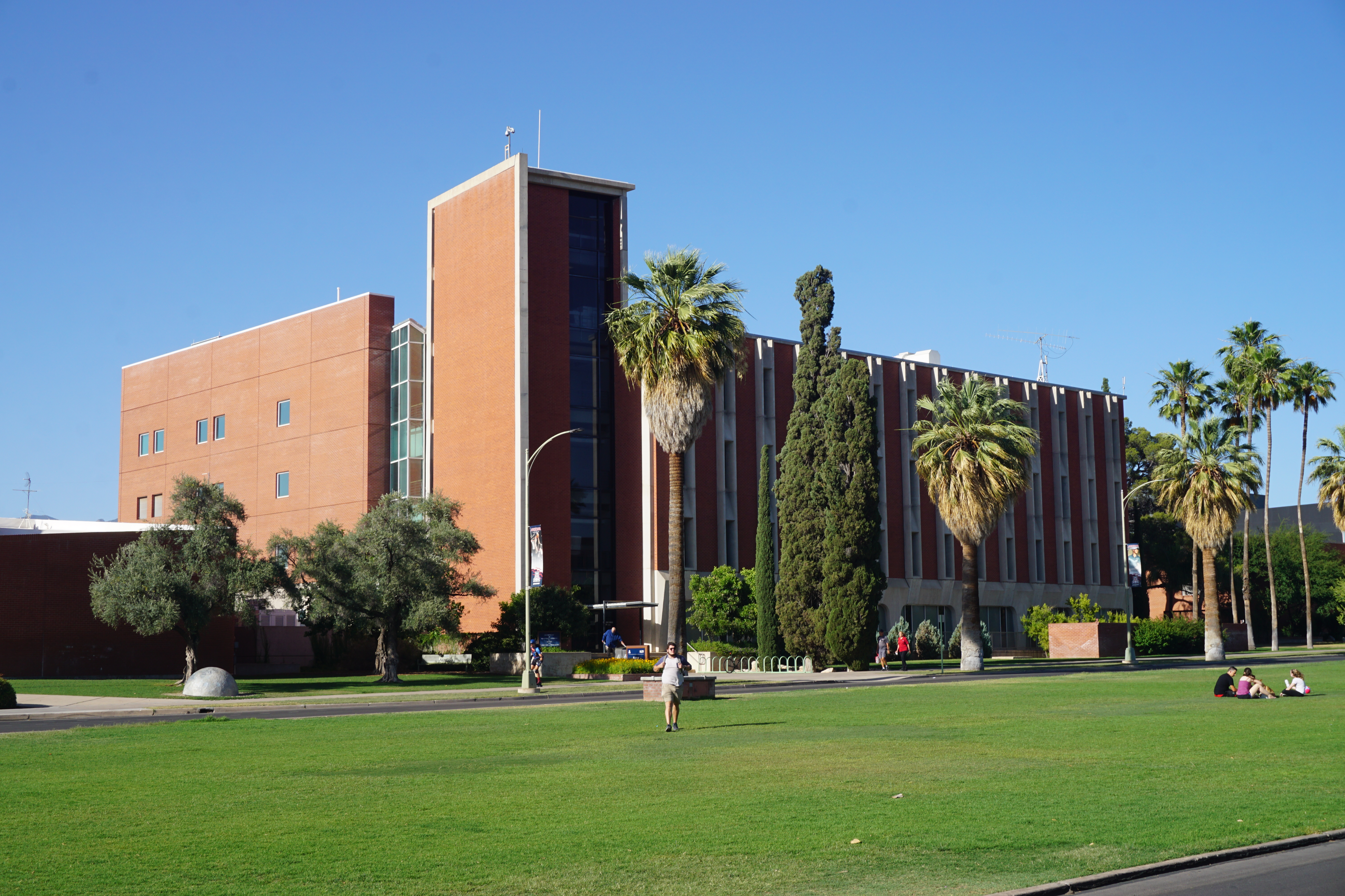 The Gerard P. Kuiper Space Sciences building on the campus of the University of Arizona in Tucson, Arizona (United States).